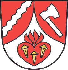 Coat of arms of Wingerode